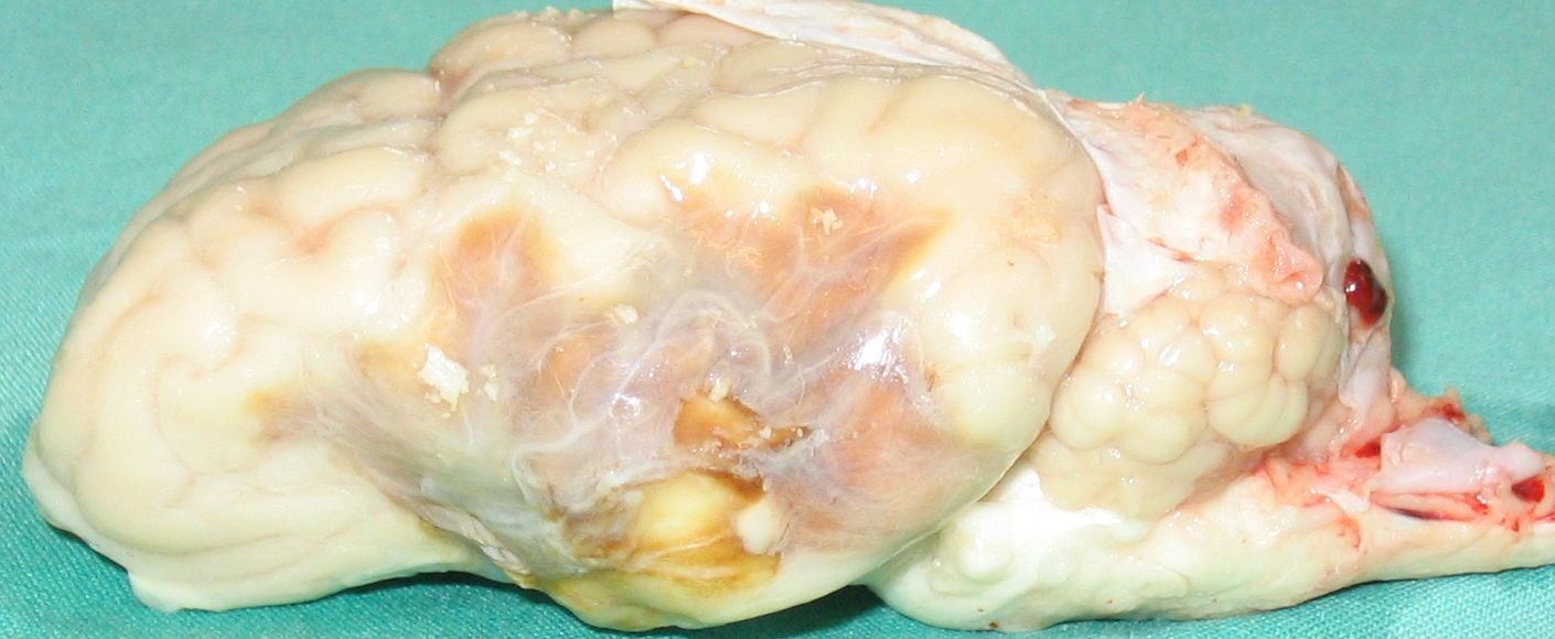 Brain of a sheep with stroke due to occlusion of the middle cerebal artery